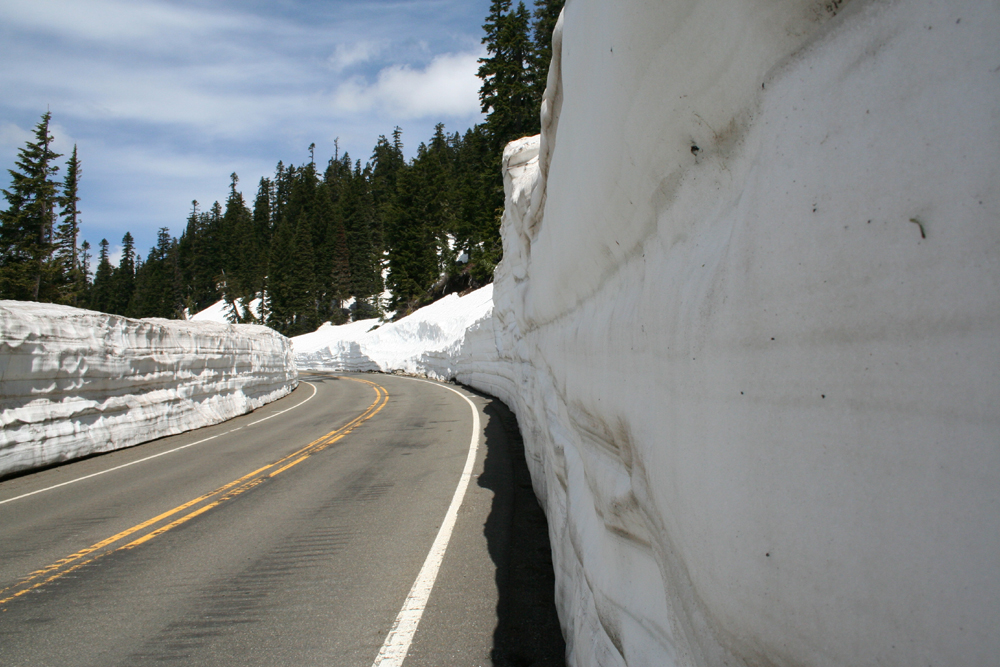 Washington State Route 410 approaching Chinook Pass on a typical June day. Photo taken just south of Lake Tipsoo about 1/2 mile from summit.